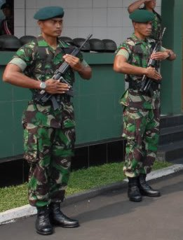 Indonesian soldiers present arms in port sling arms position